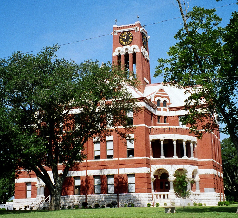 The Lee County, Texas courthouse located in, Giddings, Texas, United States. The courthouse was built in 1899 and is designed in the Richardsonian Romanesque style of architecture. The building was designated a Recorded Texas Historic Landmark in 1968 and was listed on the National Register of Historic Places on May 30, 1975.